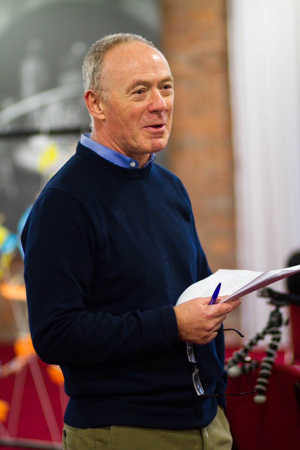 Sir Richard Leese, Manchester City Council Photo by Laura Kidd.